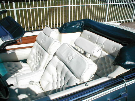 my own photo of my car